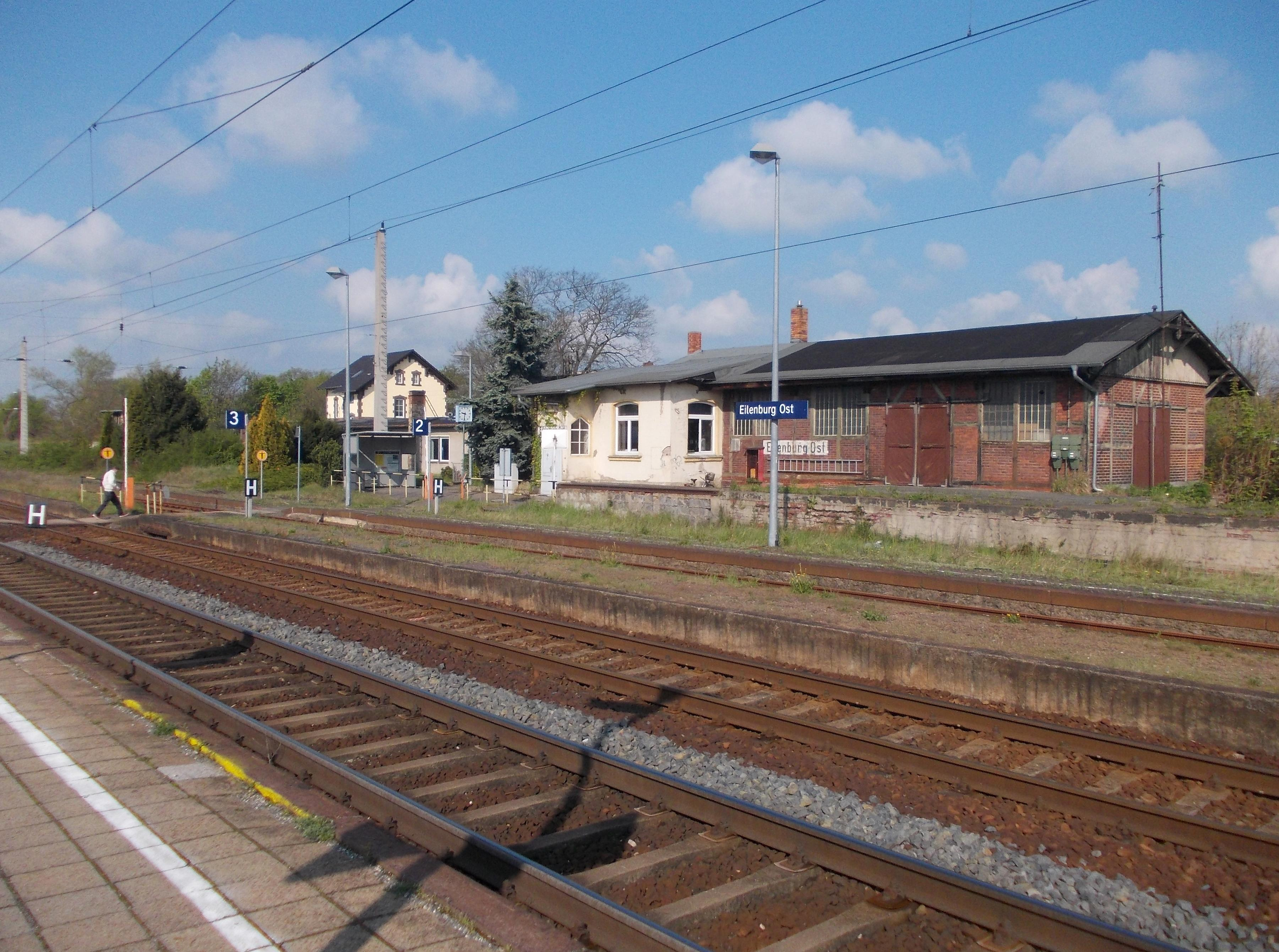 Eilenburg Ost train station (Nordsachsen district, Saxony)